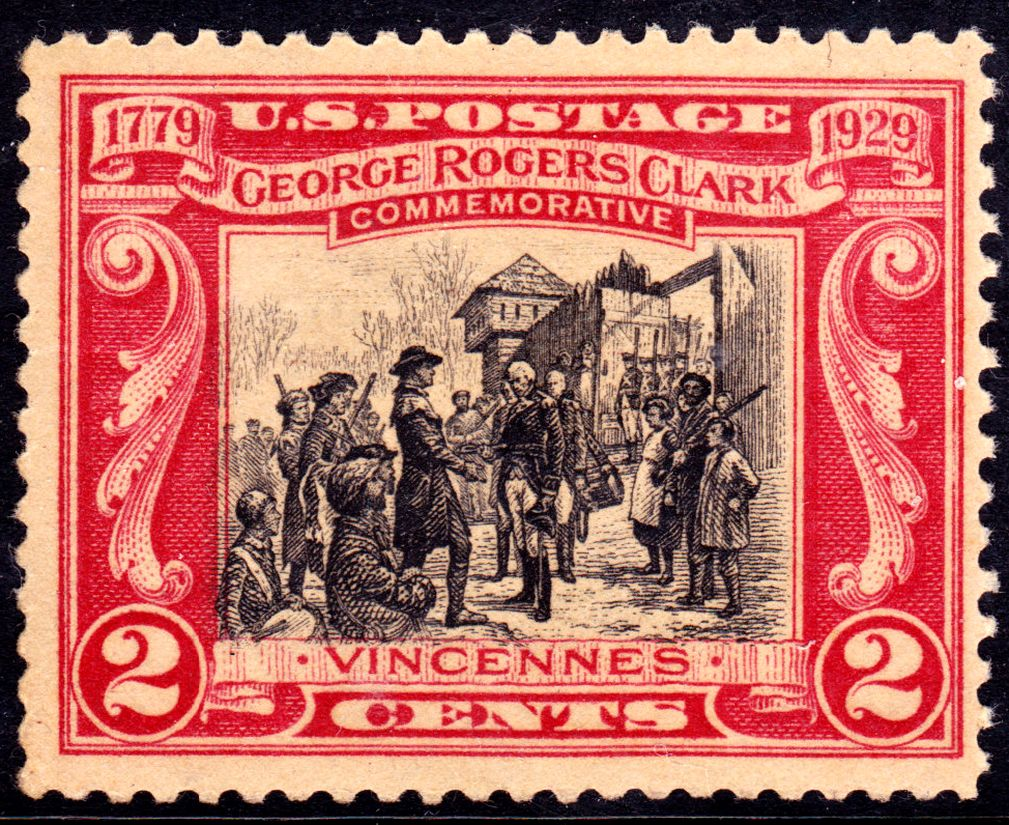 Postage stamp commemorating George Rogers Clarl, 1929 Issue, 2c